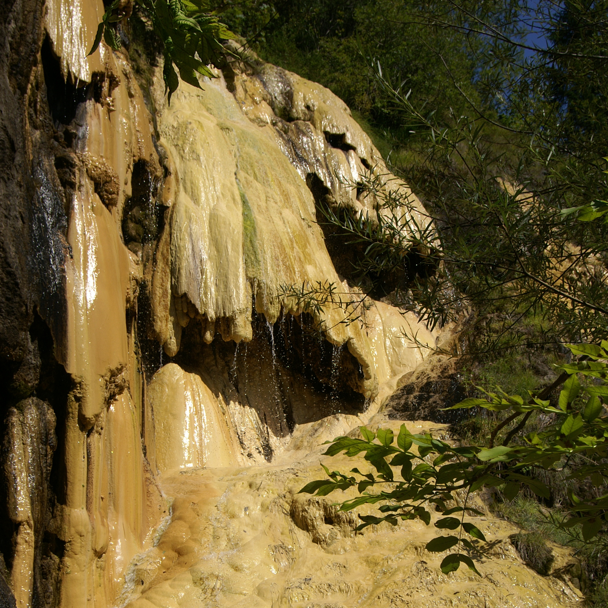 Calcereous Tuff at Lingenau, Vorarlberg, the Northwestern Limestone Alps of Austria. The stream is a tributary to the Bregenzer Ach. The recent Calcerous Tuff is almost entirely to be interpreted as calcified aggregates of cyanobacteria, Family Nostocaceae, Genus Rivularia.